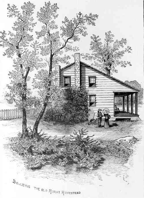 This image was taken from the Florida Memory Project, and it is identified as # RC00997 in the Florida Photographic Collection. Title: Etching of Bellevue, home of Princess Murat : Tallahassee, Florida graphic Publication info: ca. 1885. Physical descrip: 1 photoprint b&w 10 x 8 in. web site